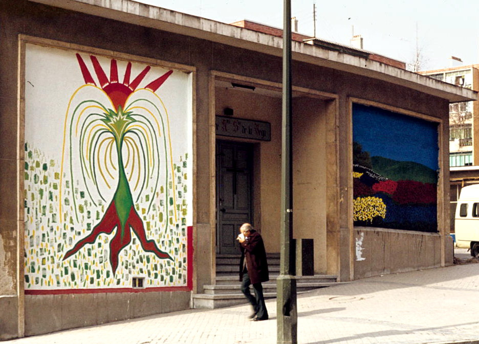 Graffiti at El Pilar neighborhood. Madrid, Spain